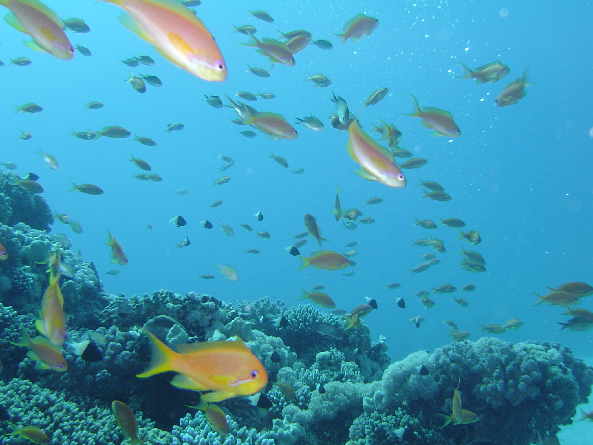 Red Sea Reef